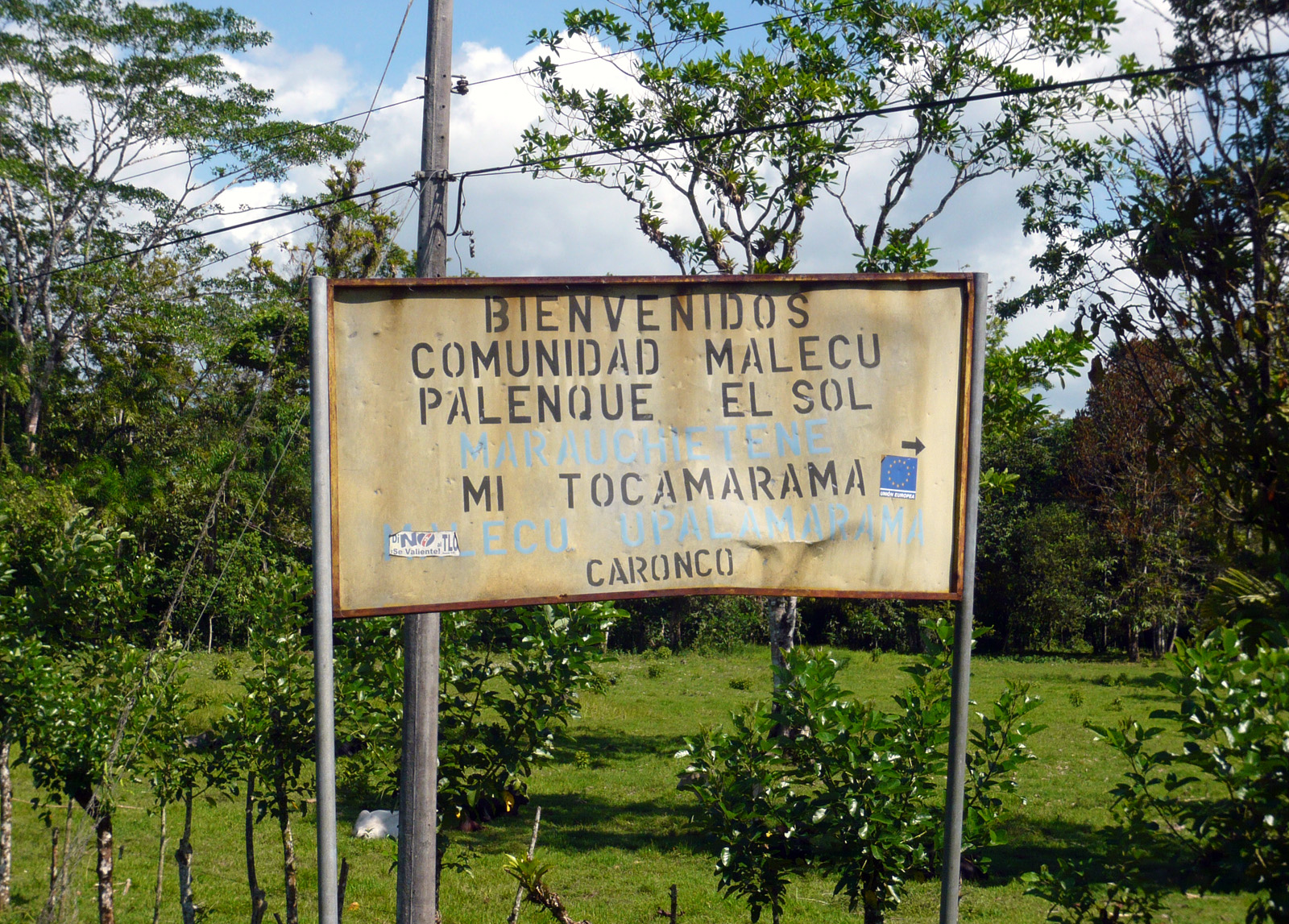 Sign in Guatuso (Costa Rica) in Spanish and Maleku.